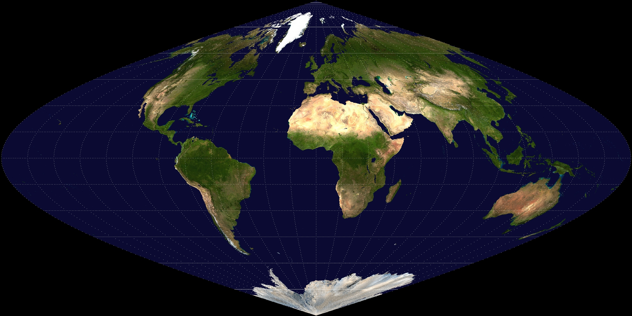 sinusoidal projection of the Earth. Source image is from NASA's Earth Observatory "Blue Marble" series.